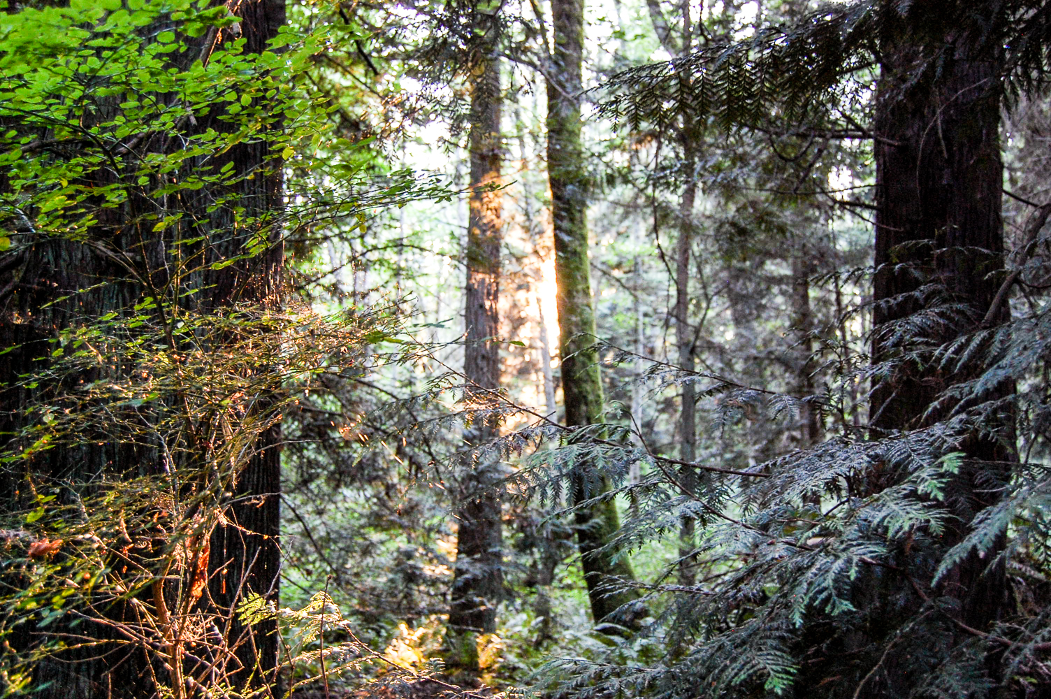 Photo of Japanese Gulch at sunset